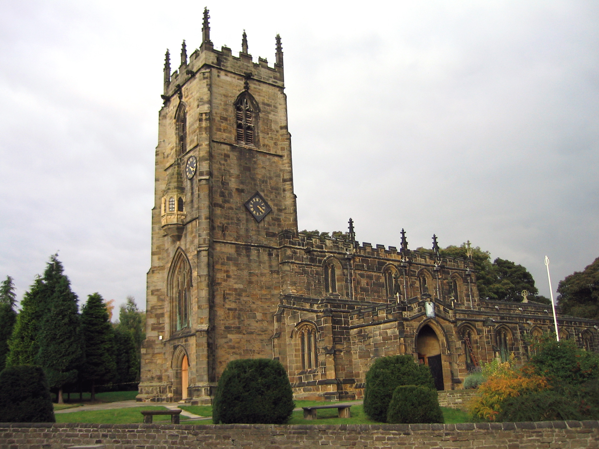 Parish Church of St John the Baptist, Royston, South Yorkshire, (Church of England)13 to 15th Century